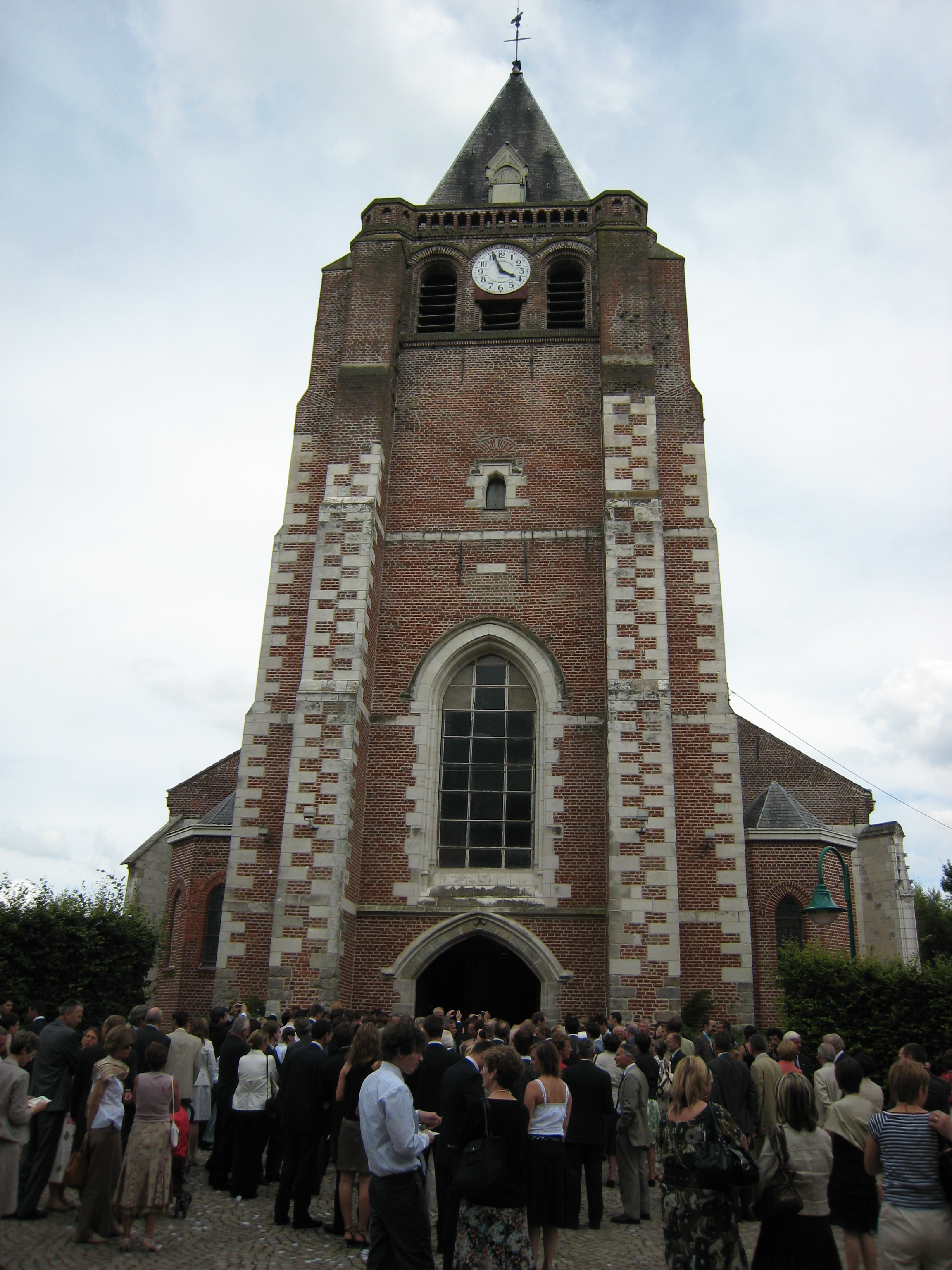 Saint-Chrysole church at Verlinghem, France